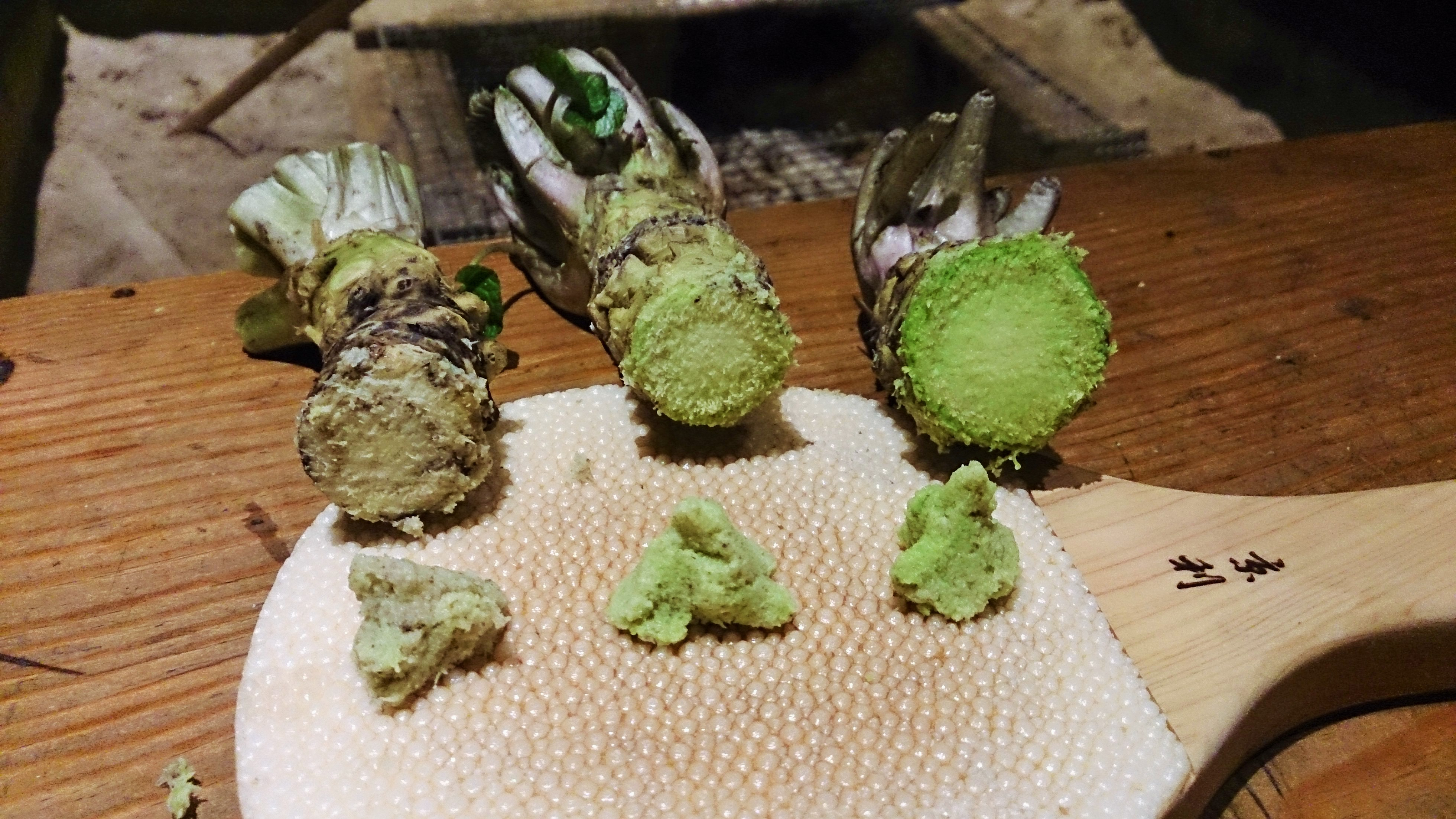 Wasabi in paste form, usually served in sushi restaurants. The evaluation of the color and the taste of grated Hikimi Wasabi. From the left, Hikimi wasabi (Daijin species), Hikimi wasabi (native species) and Wasabi from Shizuoka Prefecture (Mazuma species). All of them are three-year old roots. Residents of Kanto District (in the Western area) prefer deep green wasabi; whereas residents of the Kansai District (in the Eastern area) prefer light green or yellow wasabi.